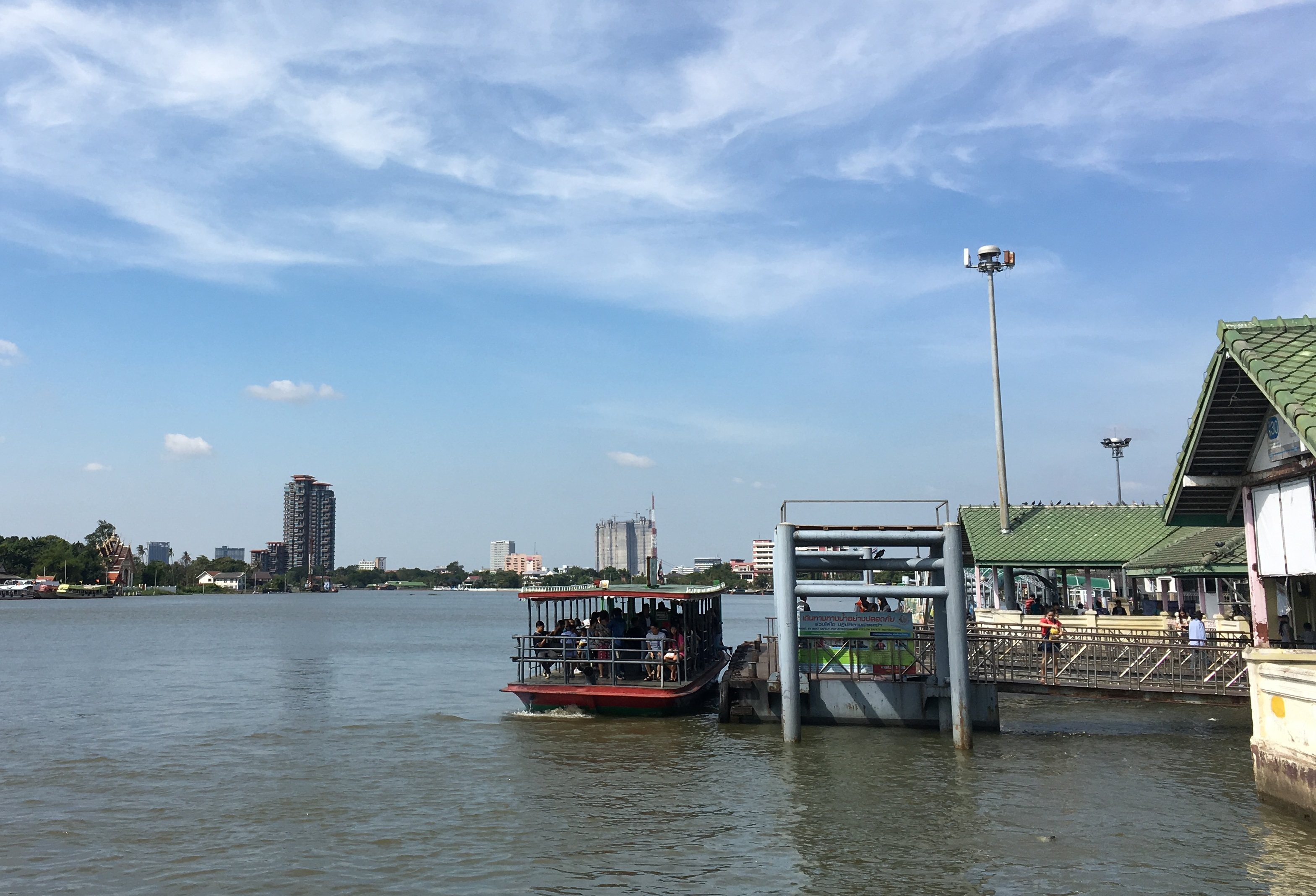 View of the pontoons for the cross-river ferry at the Nonthaburi (Phibul 3) Pier in Suan Yai, Nonthaburi Province.